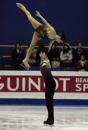 Zhang Yue & Wang Lei (CHN) perform a lift during their short program at the 2008-2009 Junior Grand Prix Final. They placed 4th in this segment of the competition and 2nd overall.